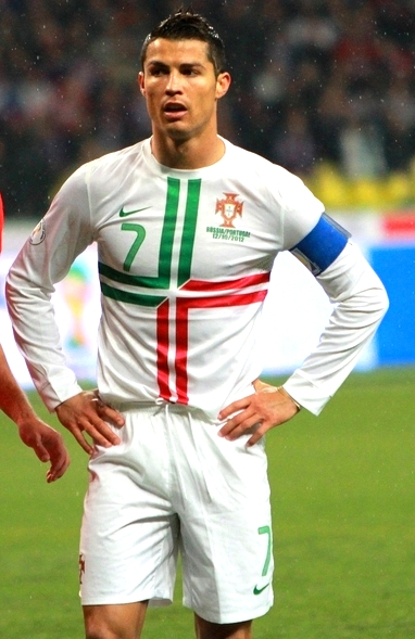 Cristiano Ronaldo